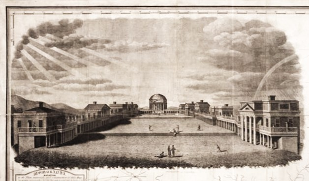 University of Virginia: The Lawn 1826. (Trees were already planted, but were probably omitted because they were still very small as pointed out, for example, by Pendleton Hogan in his 1987 book The Lawn. A Guide to Jefferson's University.) "Village Design of University of Virginia," 1826. Detail of University of Virginia map by Herman Böÿe, 1827. Reproduction. Courtesy of the Tracy W. McGregor Library of American History, Special Collections Department, University of Virginia Library" (according to a Library of Congress website)